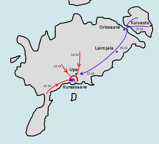 Saaremaa rebellion 1919